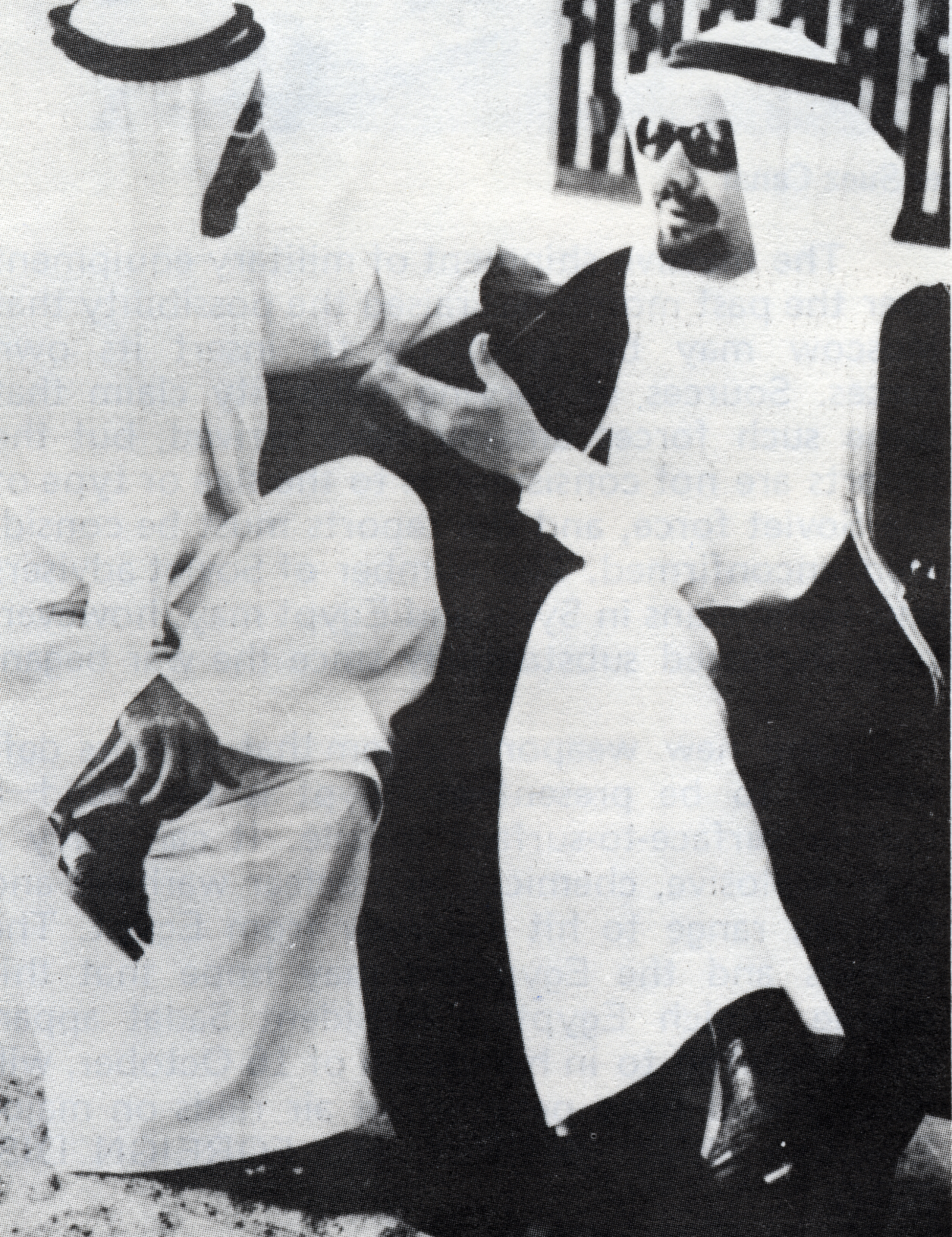 Organization of Petroleum Exporting Countries (OPEC) petroleum ministers. From the booklet "President Nixon and the Role of Intelligence in the 1973 Arab-Israeli War." For more information, visit